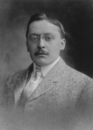 Photo in family album